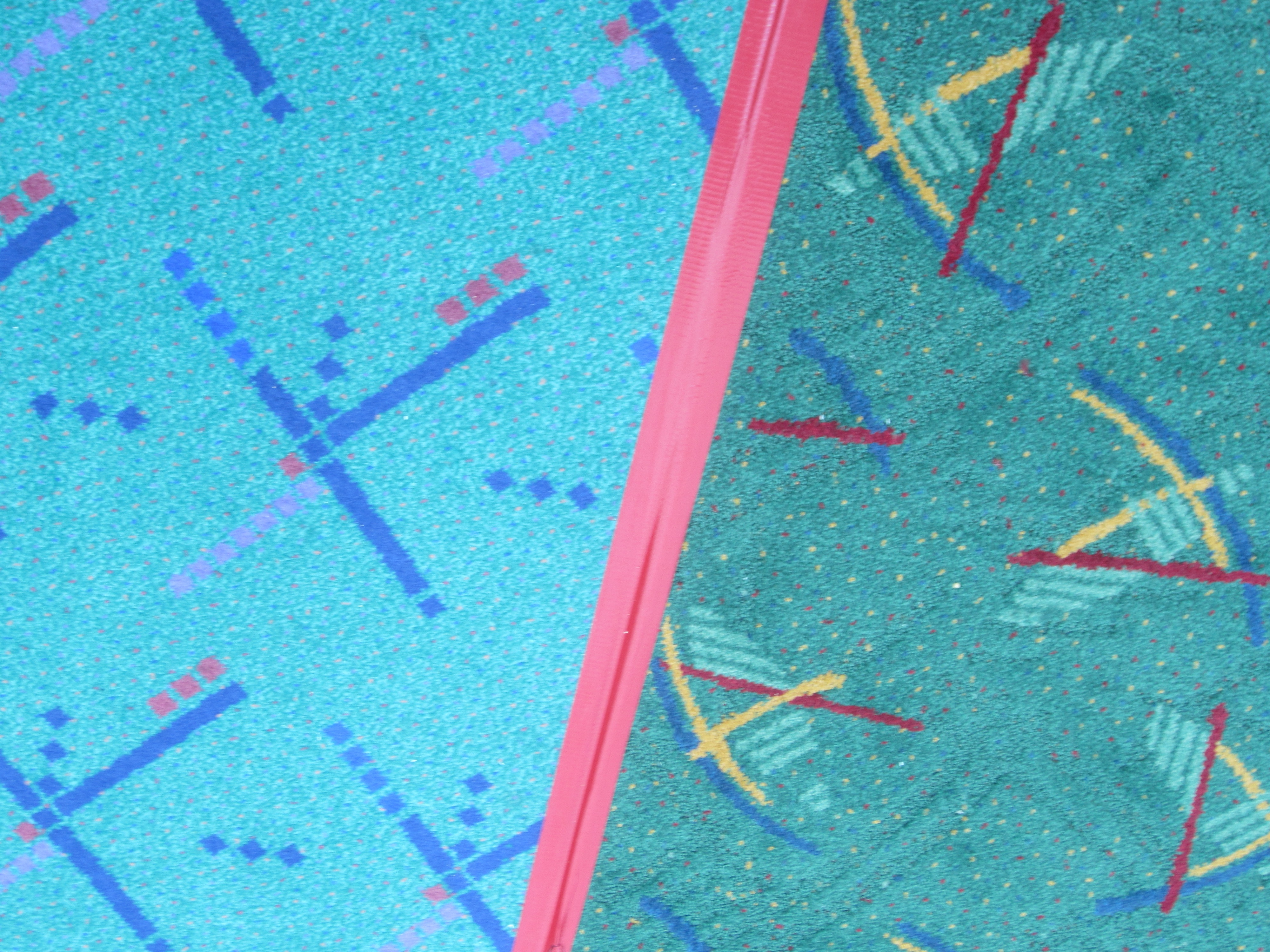 Old and new carpet at the Portland International Airport, 2015